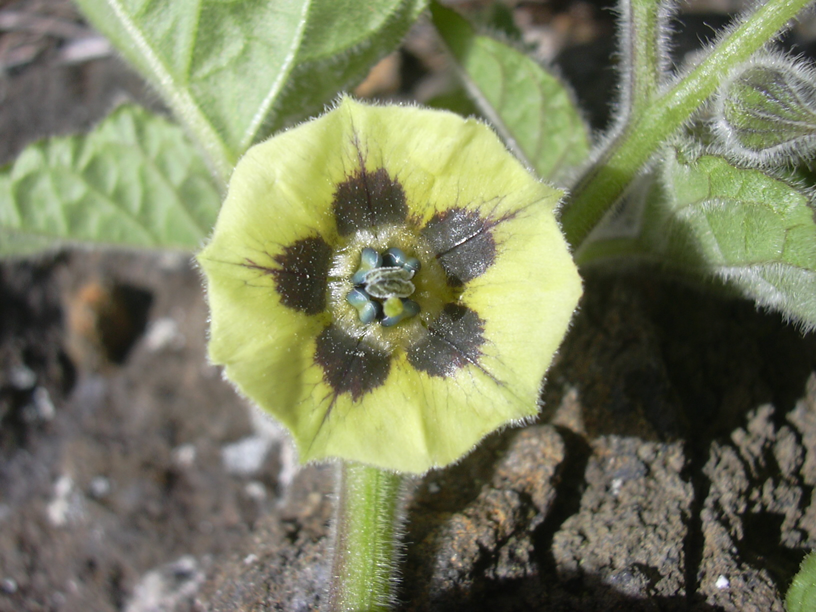 Physalis peruviana (flower). Location: Maui, Auwahi